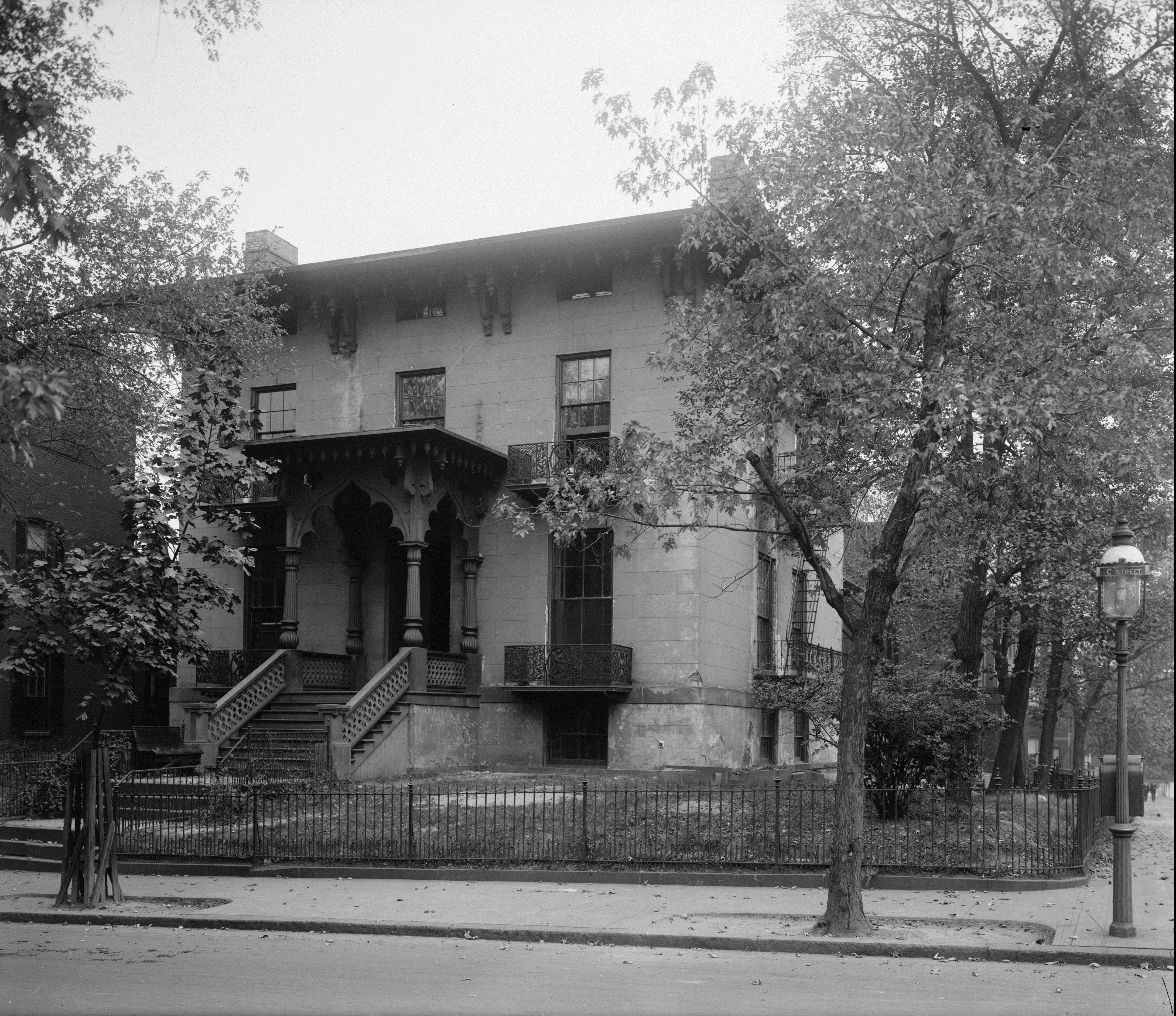 Old image of the Working Boys' Home